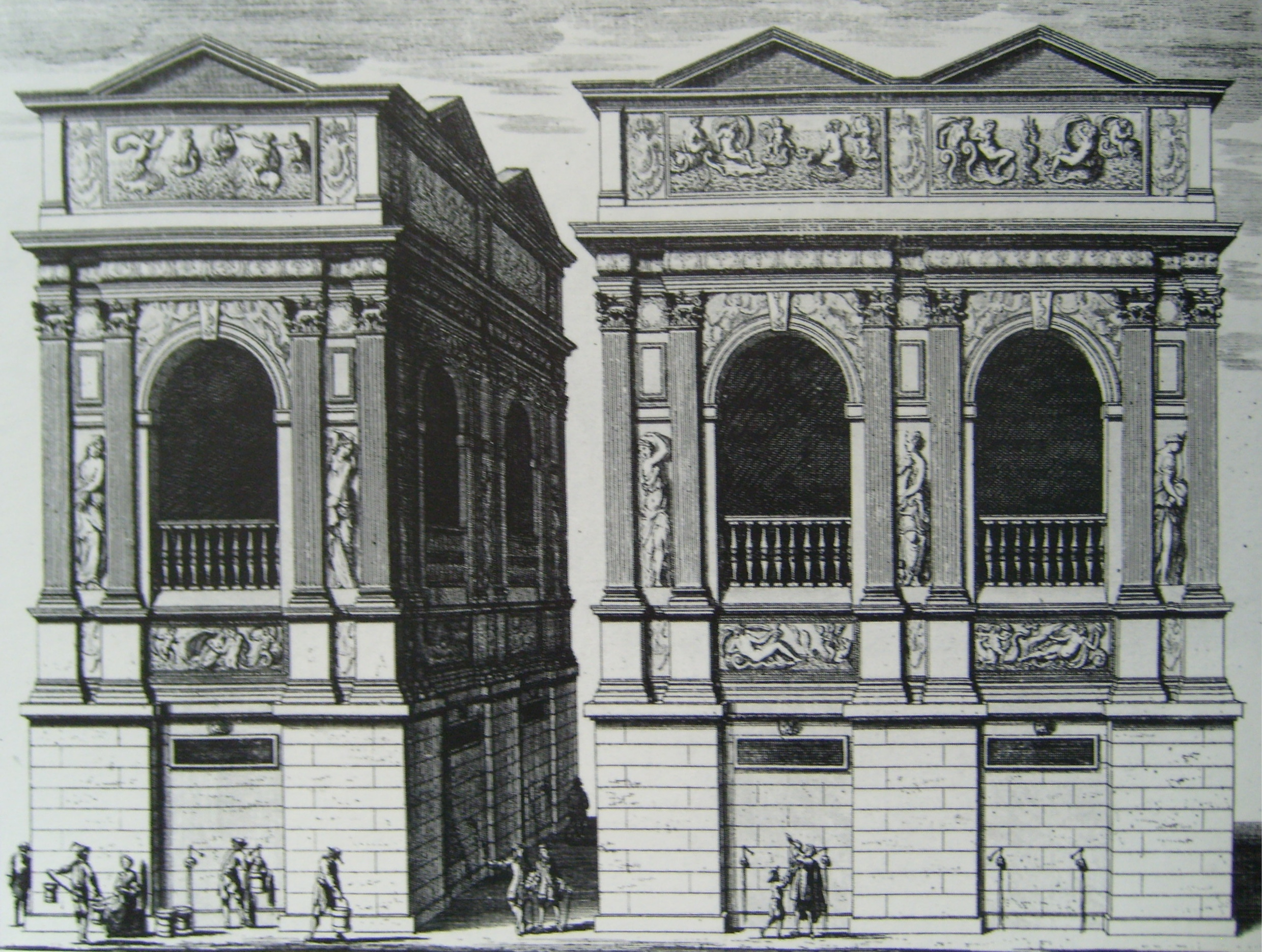 Engraving, about 1670, by Perele, from Vues des plus beaux batiments de Paris, Langlois, 1693. Original in the Bibliotheque d'Art et d'Archeologie, Paris